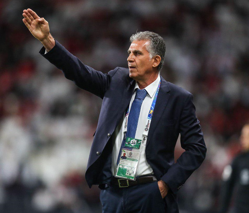 Iran-Oman Round of 16, 2019 AFC Asian Cup